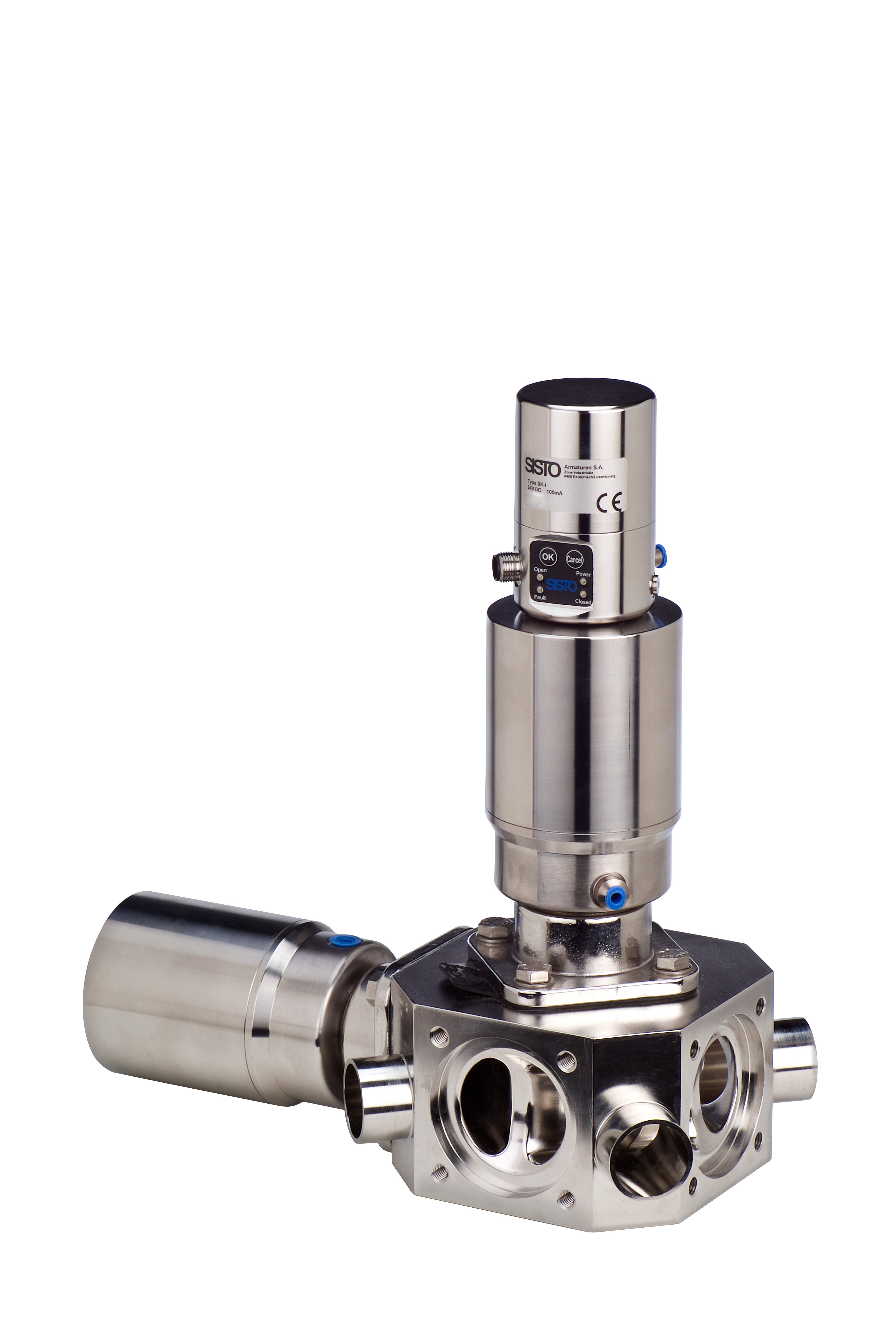 Product image SISTO-CM504